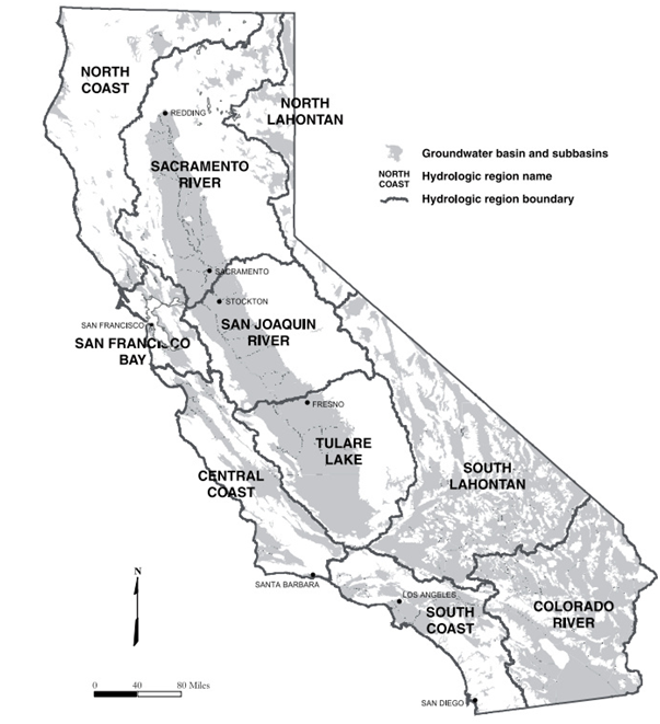 hydrological regions of California